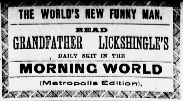 Advertisement for "Grandfather Lickshingle" columns in the New York Morning World